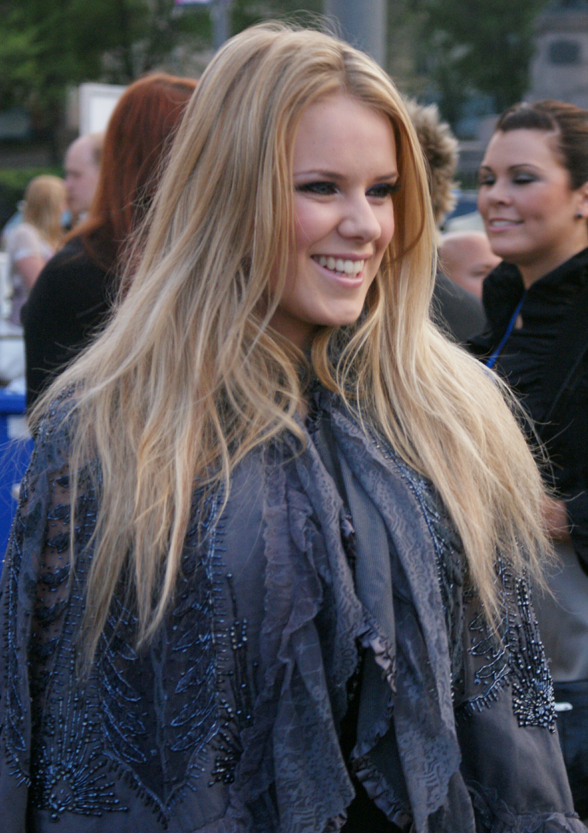 Icelandic singer Yohanna.